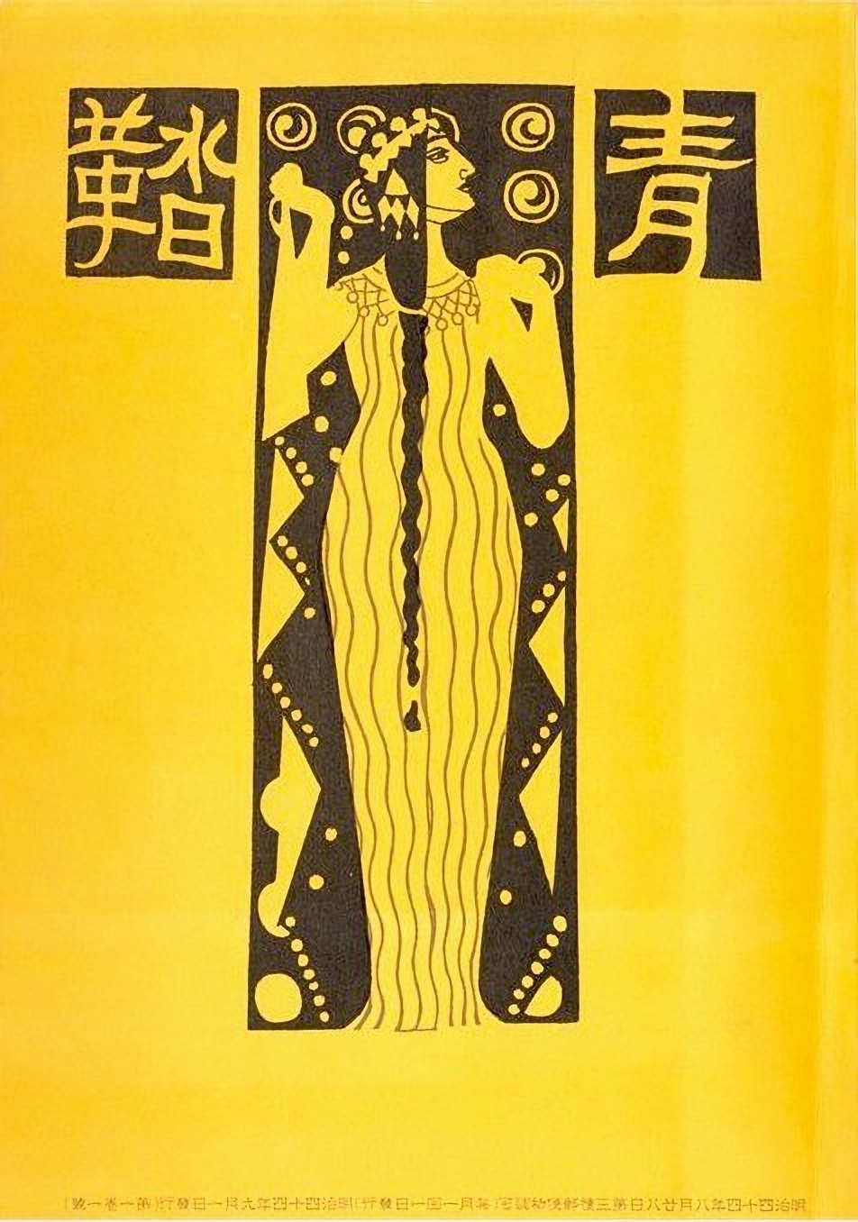 A front cover of Seito by Chieko Naganuma (aka Chieko Takamura).